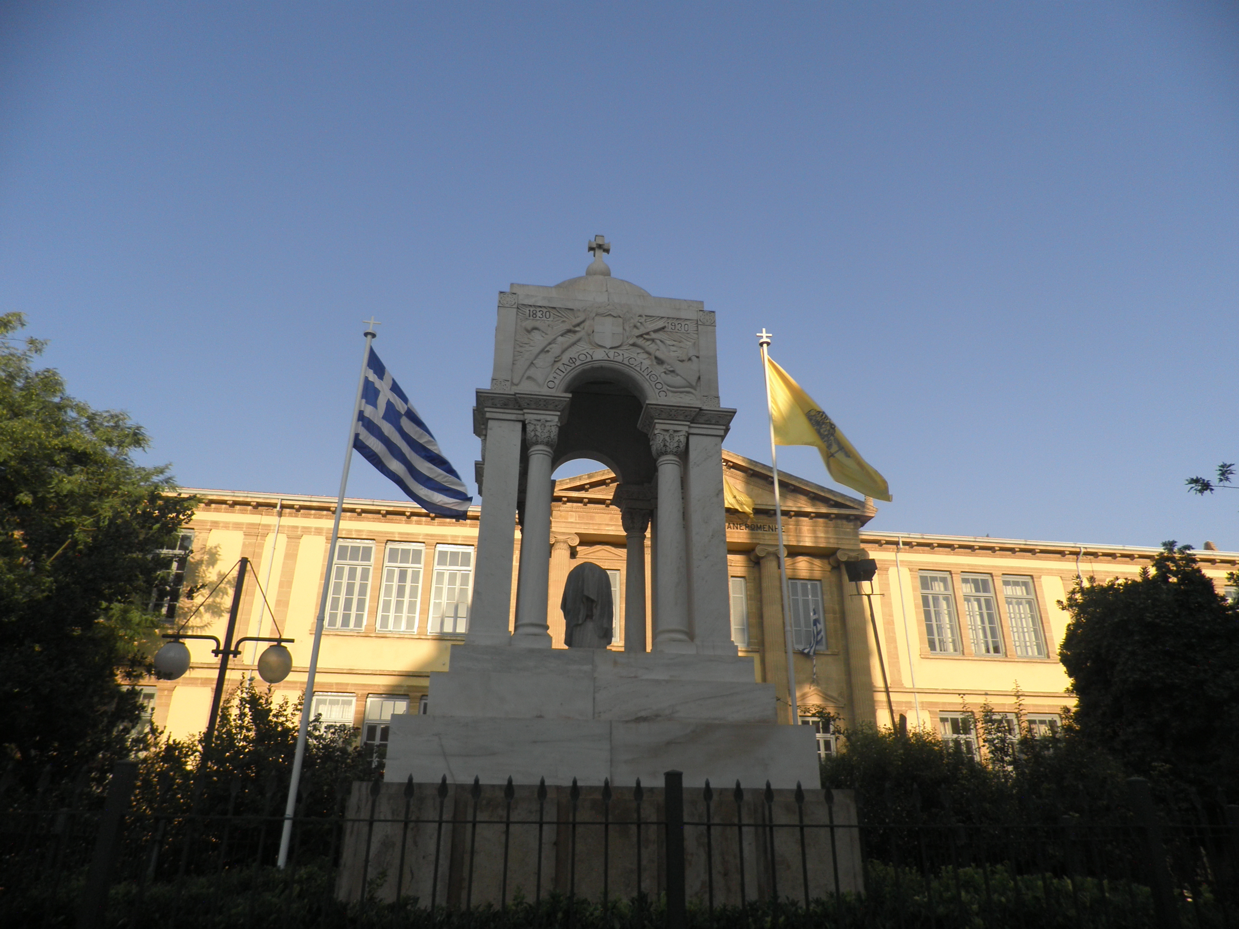 Parthenagogeio Faneromenis